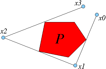 This figure, a companion to the wiki page on outer billiards, illustrates the definition of this dynamical system. The figure shows a red polygon and several additional line segments.